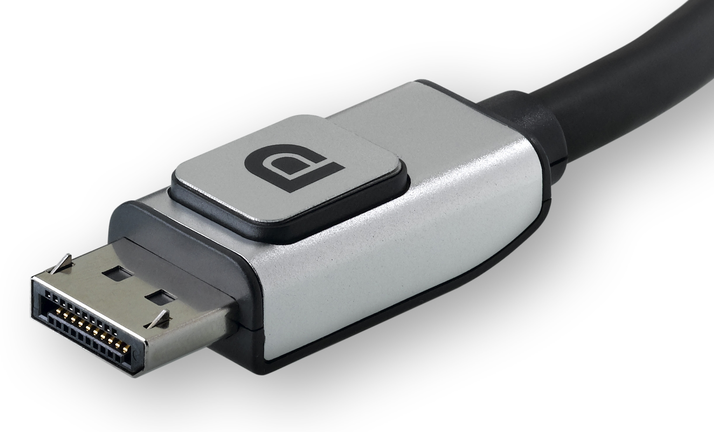 An example of a DisplayPort cable